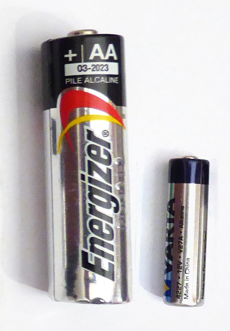 Photo illustrating the A27 battery size (also known as 27A, GP27A, MN27, L828, 8LR732, 22). This is a battery with 12 V nominal voltage, so internally has 8 cells. Shows from left to right: an AA battery for comparison (alkaline). an A27 size battery (alkaline). This is a reduced version of File:Batteries-a27-0.jpg, which I made on 2017-09-15.